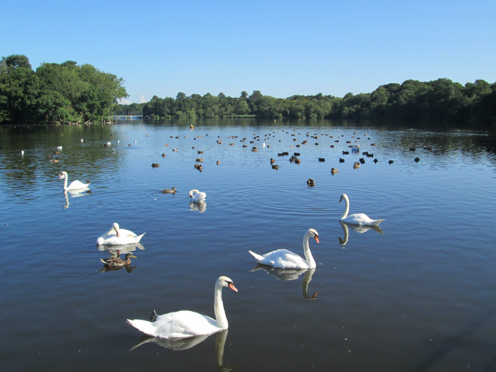 Redesmere Lake, near Siddington in Cheshire, viewed from the south.